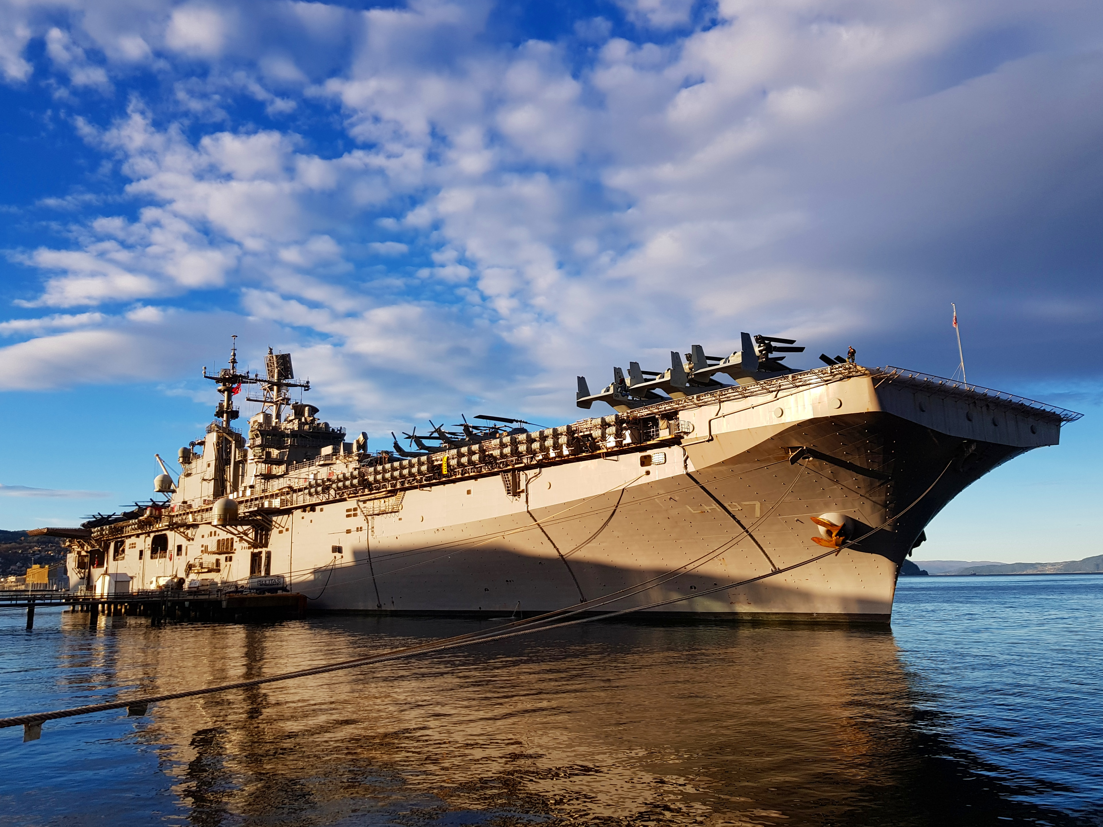 USS Iwo Jima in Trondheim, Norway during NATO's Exercise Trident Juncture 2018